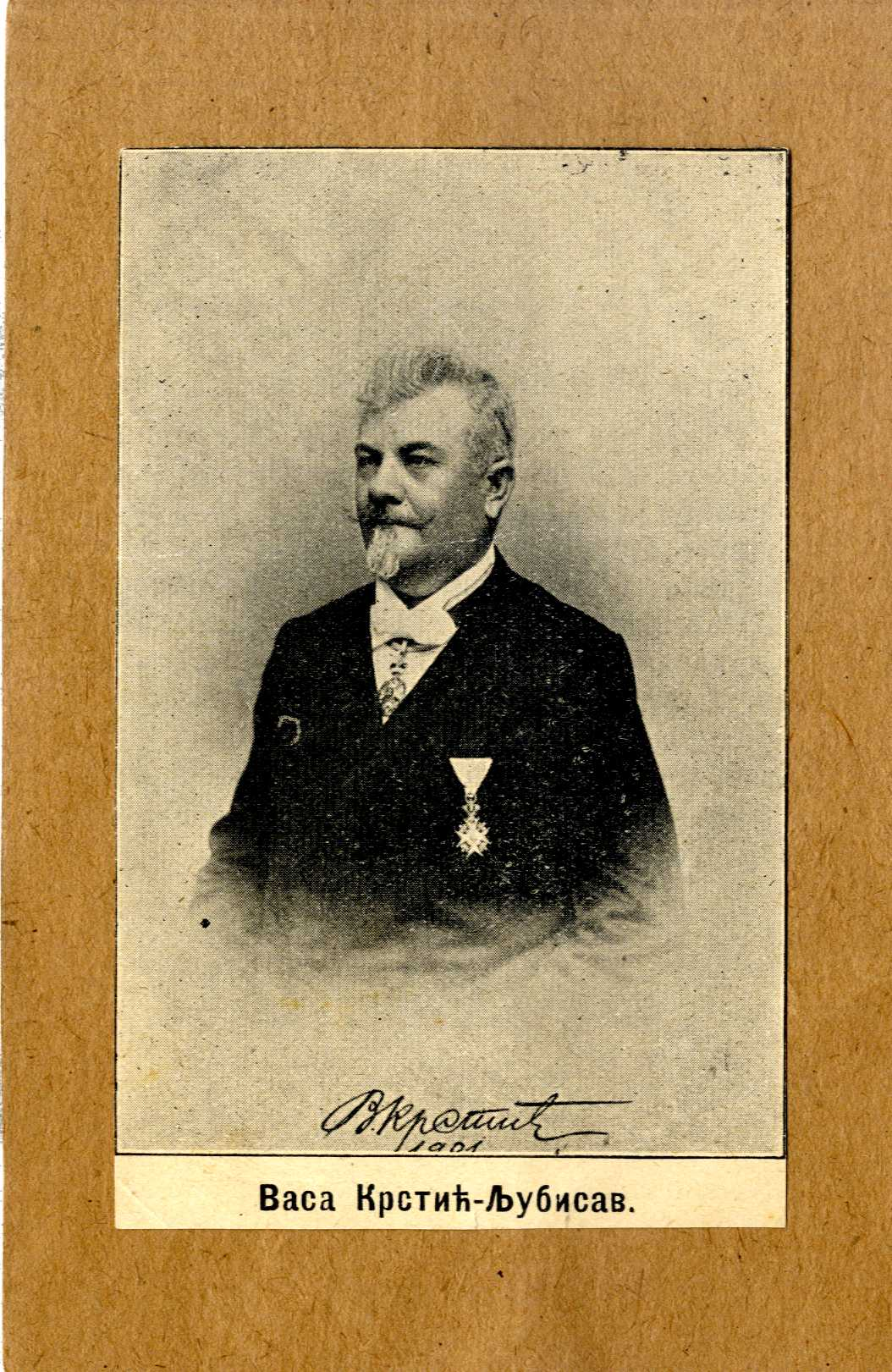 Vasa Krstić, Picture from Orao, illustrated calendar, 1899, Belgrade, Srbia